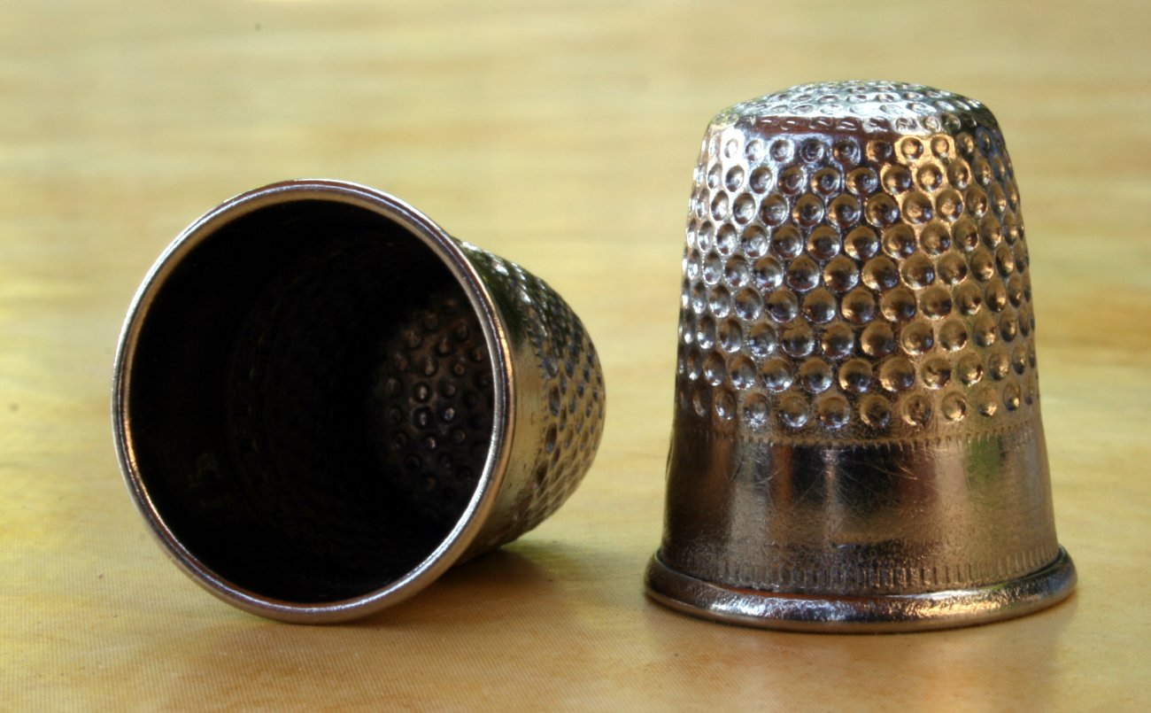 Thimbles